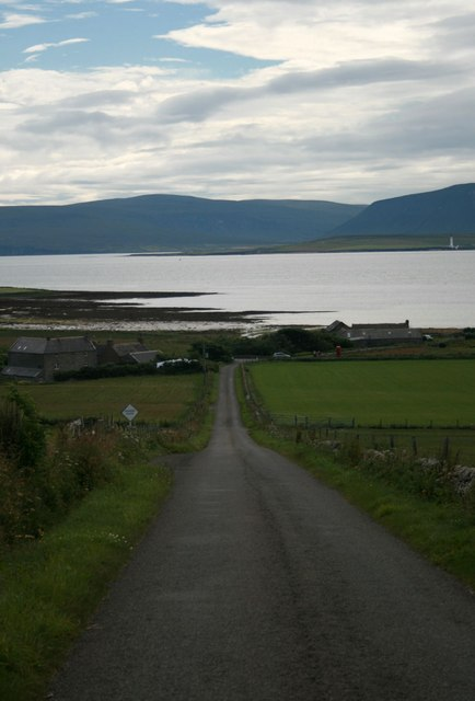 Road to Ireland, Orkney